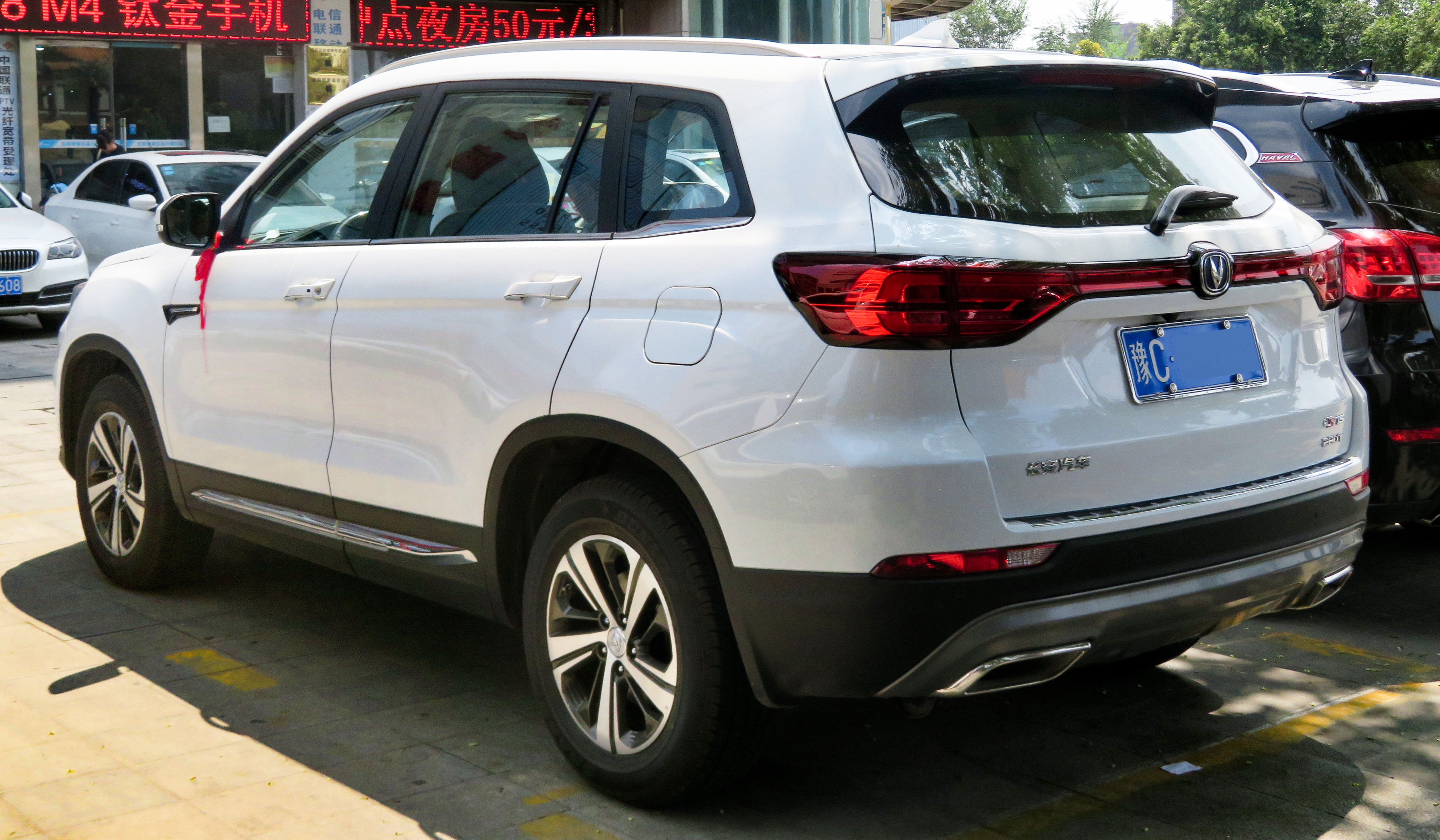 Photographed in Luoyang, Henan province, China